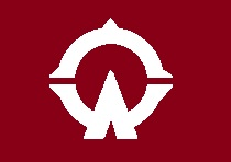 Flag of Kori Fukushima